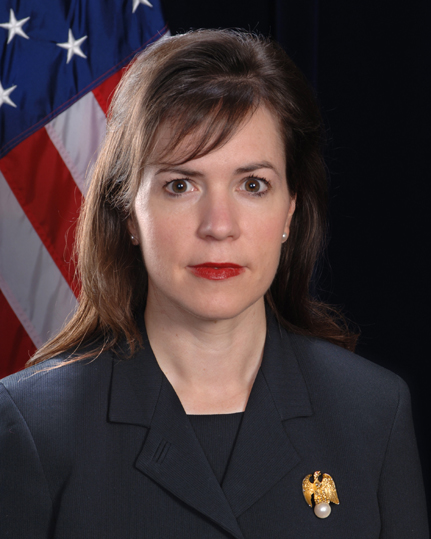 Julie Myers, former Assistant Secretary, United States Immigration and Customs Enforcement.